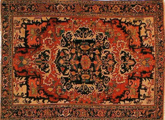 Azerbaijanian carpet from Heriz (Iran), 19th century. Sotheby's.